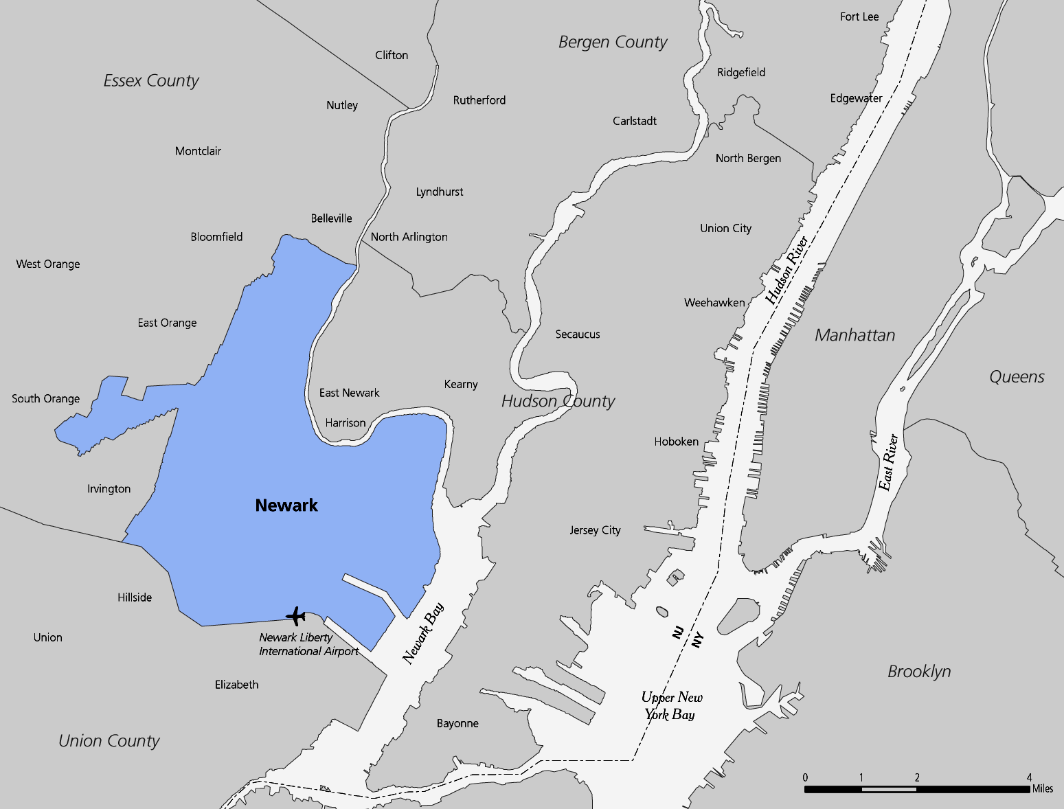 Map of Newark, New Jersey, United States, and vicinity.